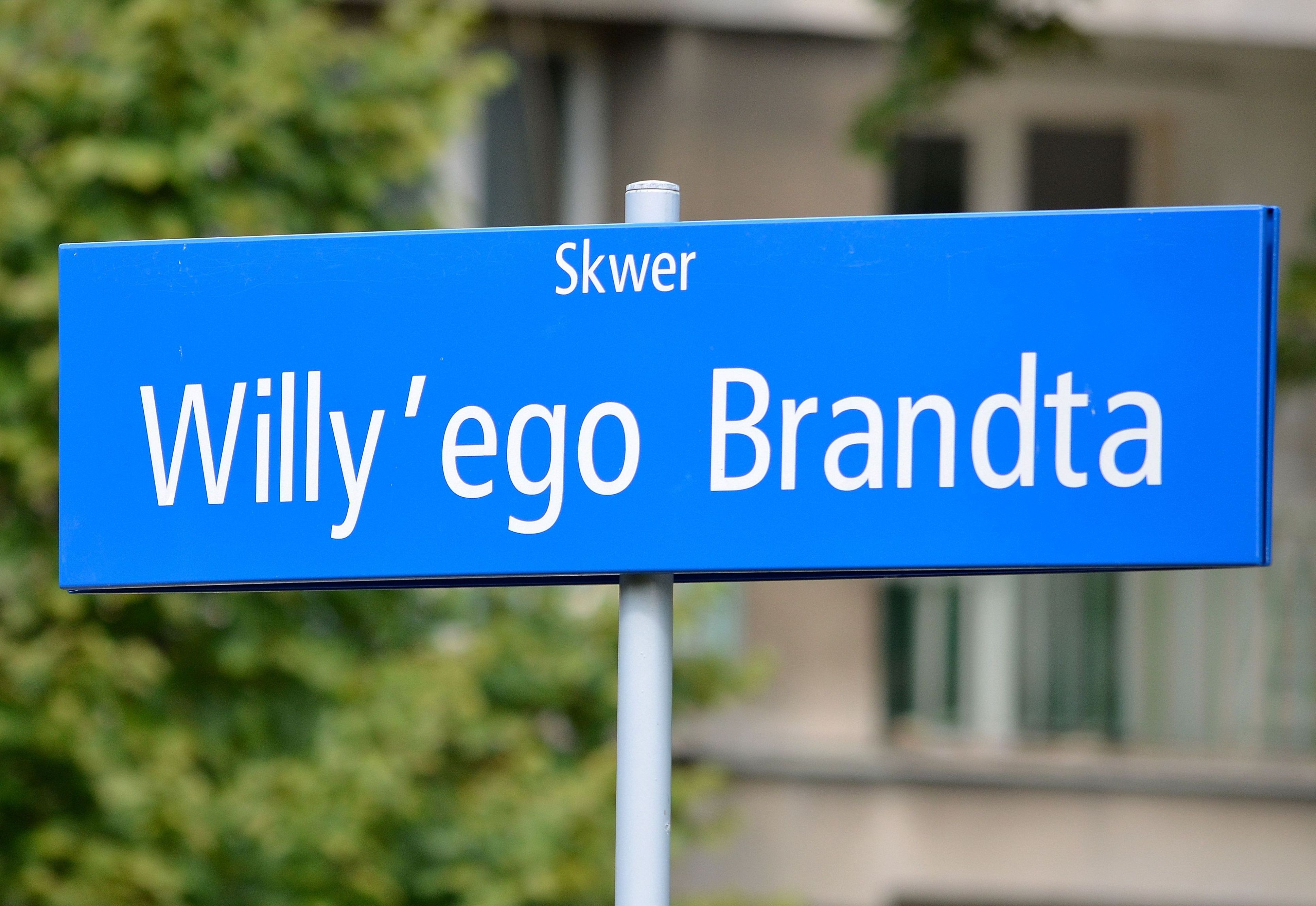 Warsaw City Information street sign in Willy Brandt Square